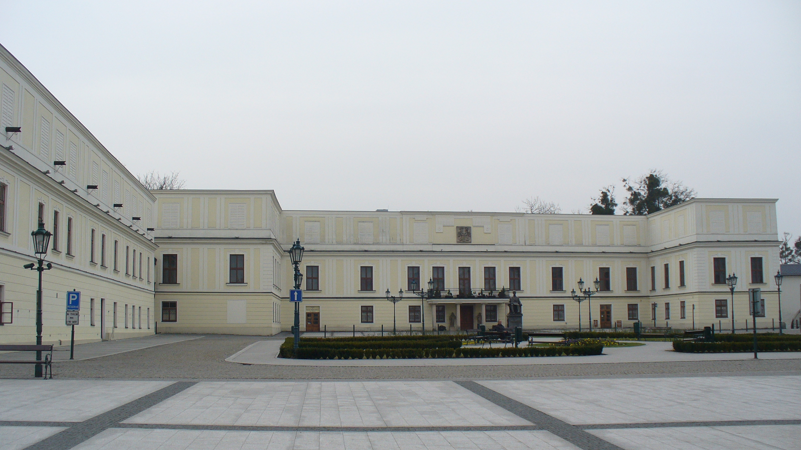 Fryštát chateau in Karviná.